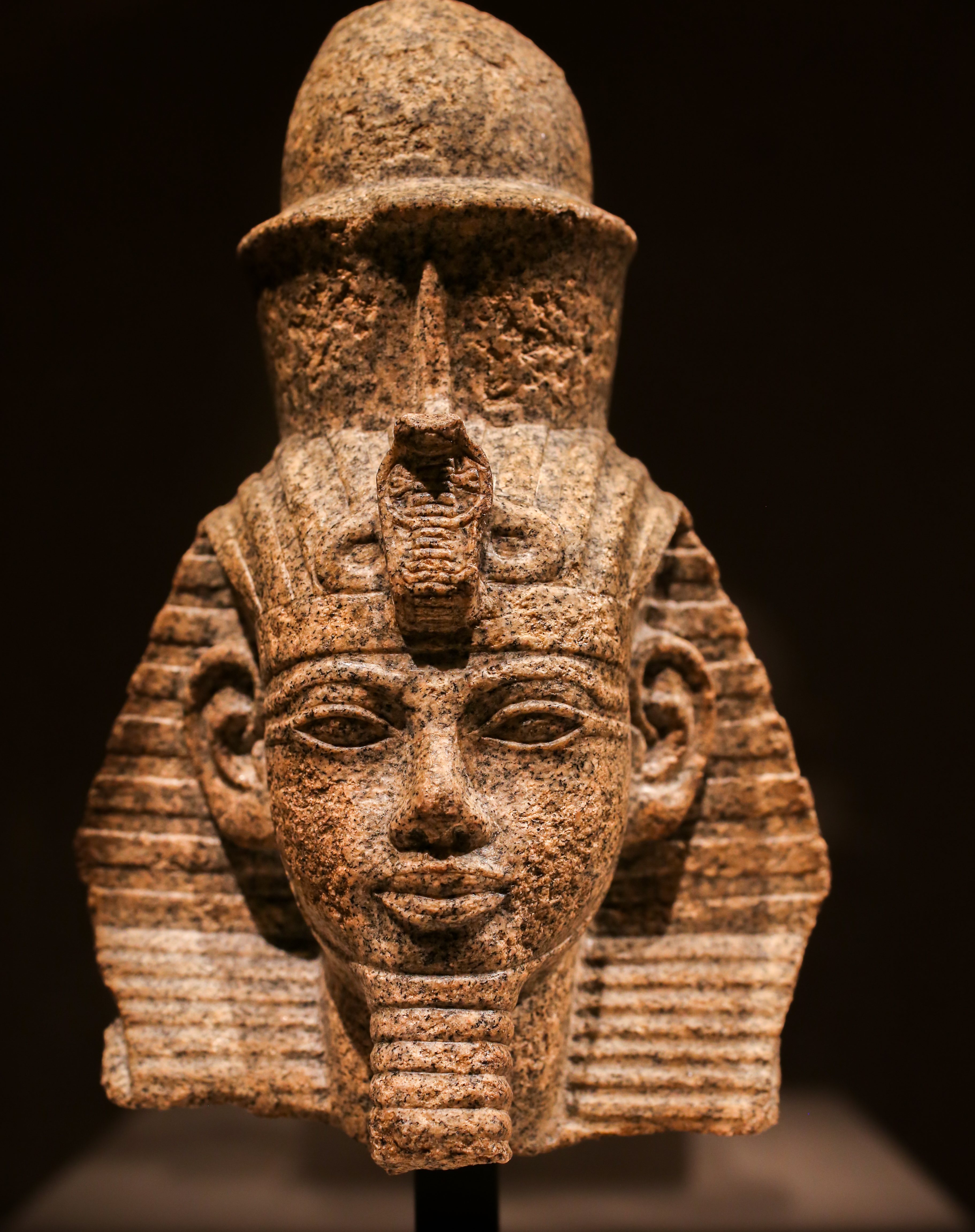 object type: head broken from portrait statue - description: Amenhotep III wearing the double crown of Upper and Lower Egypt, the nemes with cobra and the ceremonial beard - production place: Egypt - period / date: New Kingdom, later 18. dynasty, 1386-1349 BC - material: granodiorite - height: 19 cm - findspot: Egypt - museum / inventory number: Berlin, Neues Museum ÄM 1997/118 - Please note: The above museum permits photography of its exhibits for private, educational, scientific, non-commercial purposes. If you intend to use the photo for any commercial aime, please contact the museum and ask for permission.